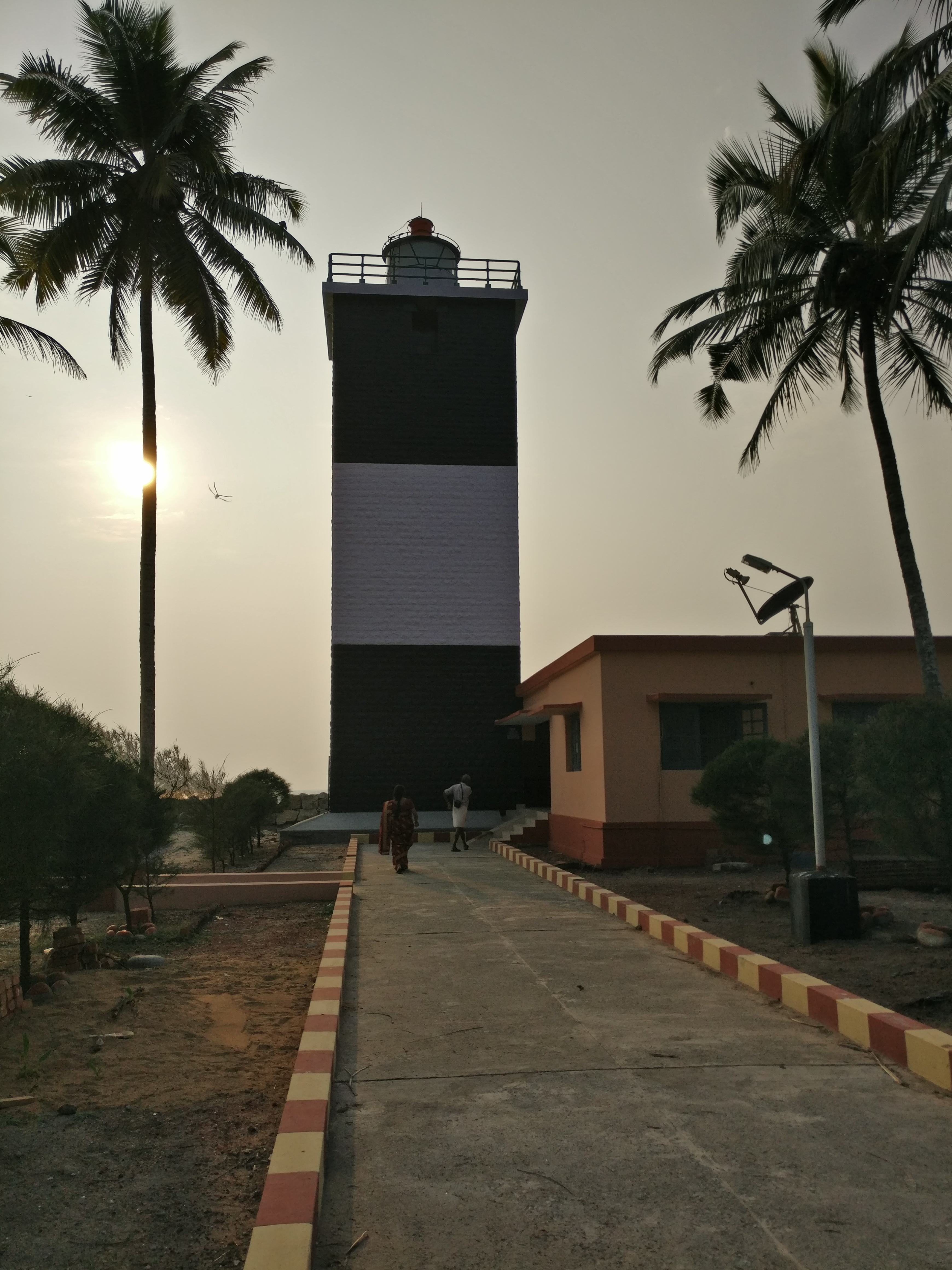 Kovilthottam Lighthouse is one among the two lighthouses in Kollam Metropolitan Area.